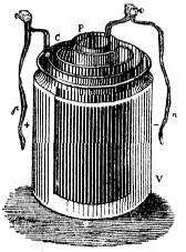 Daniell element, Daniell cell